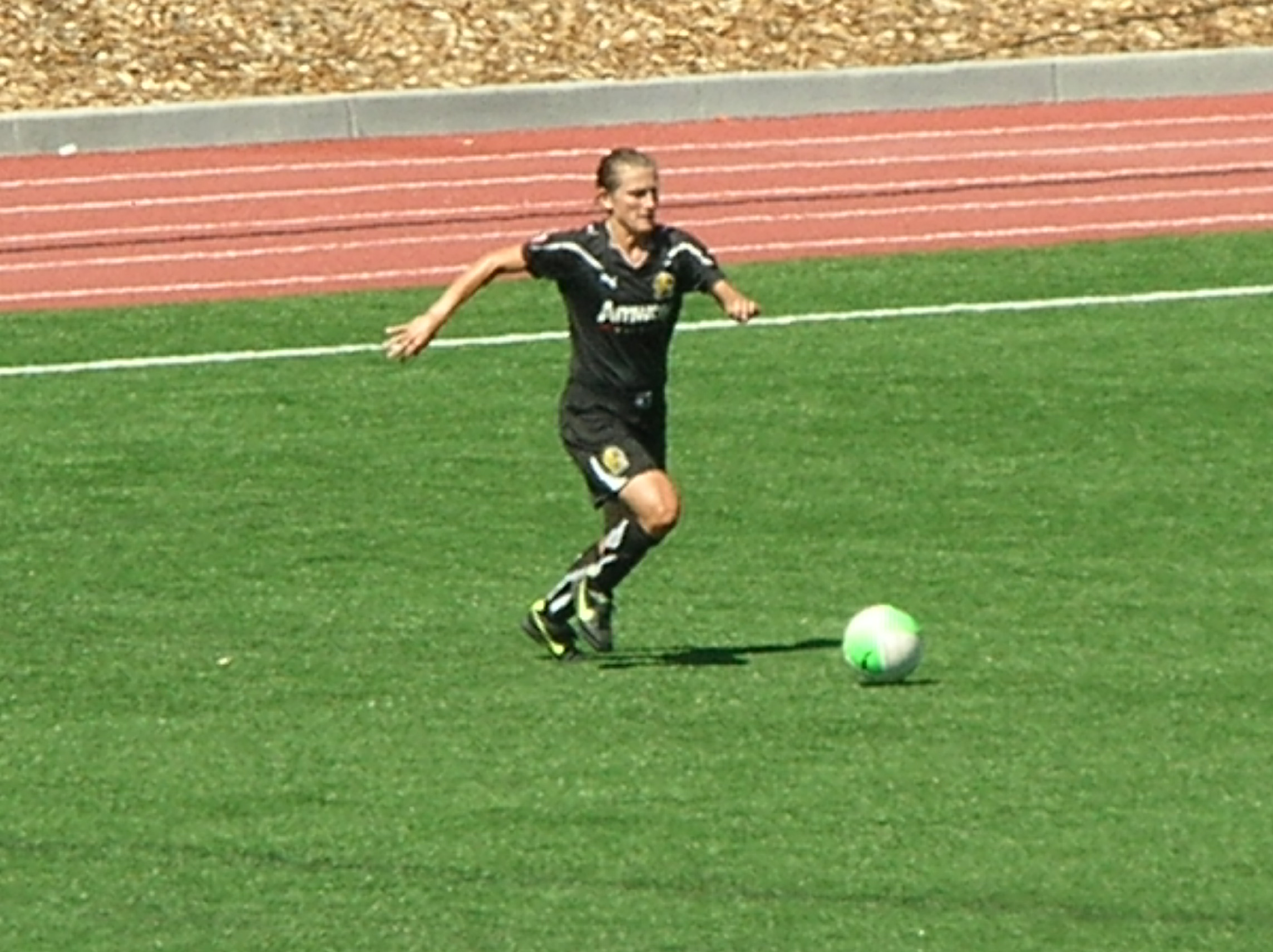 FC Gold Pride forward Tiffeny Milbrett at the 2010 WPS Championship at Pioneer Stadium in Hayward against the Philadelphia Independence. The Gold Pride won 4-0.